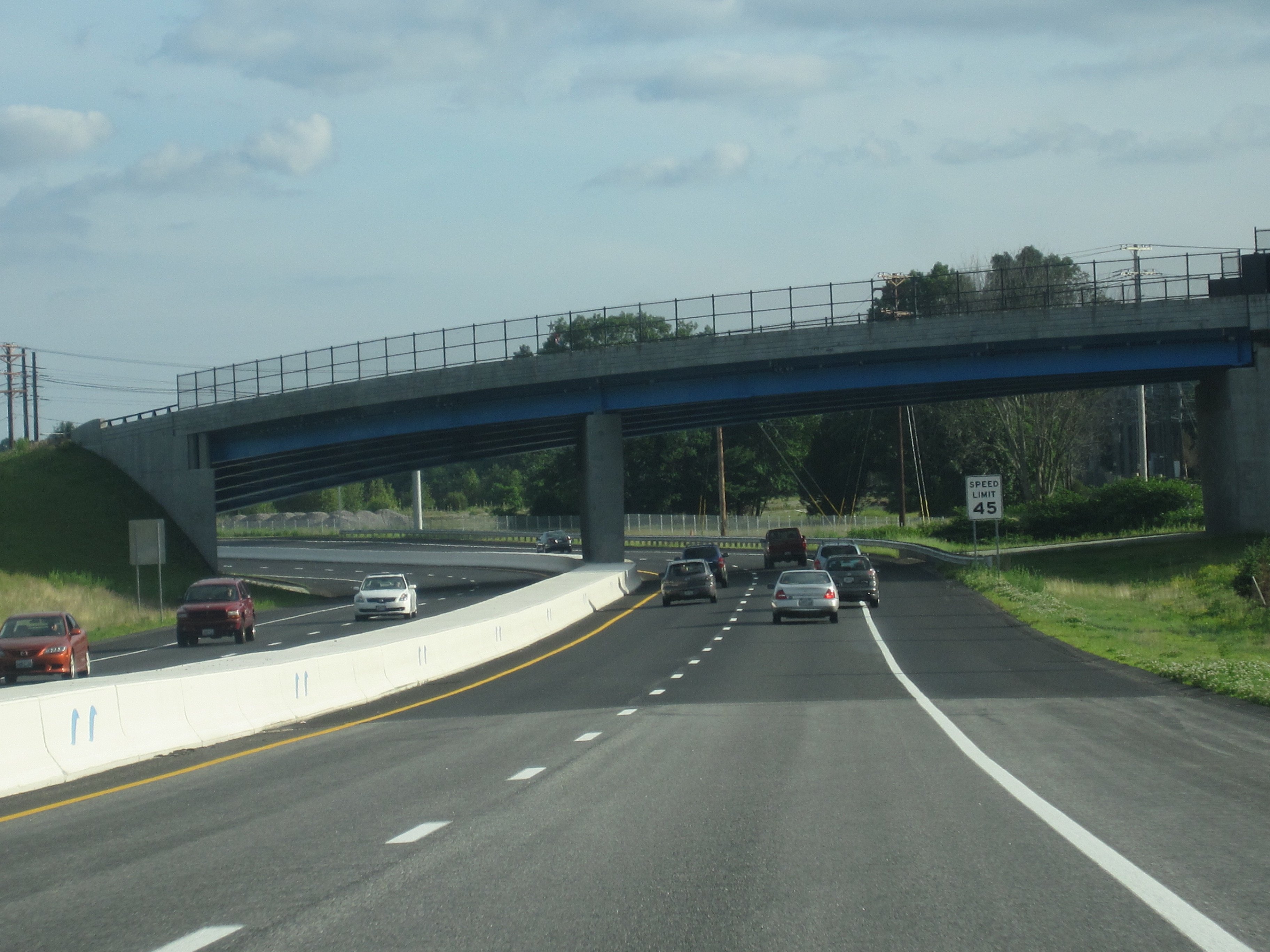 Eastbound Rhode Island Route 403 (Quonset Freeway) approaching the Devil's Foot Road overpass in North Kingstown, Rhode Island